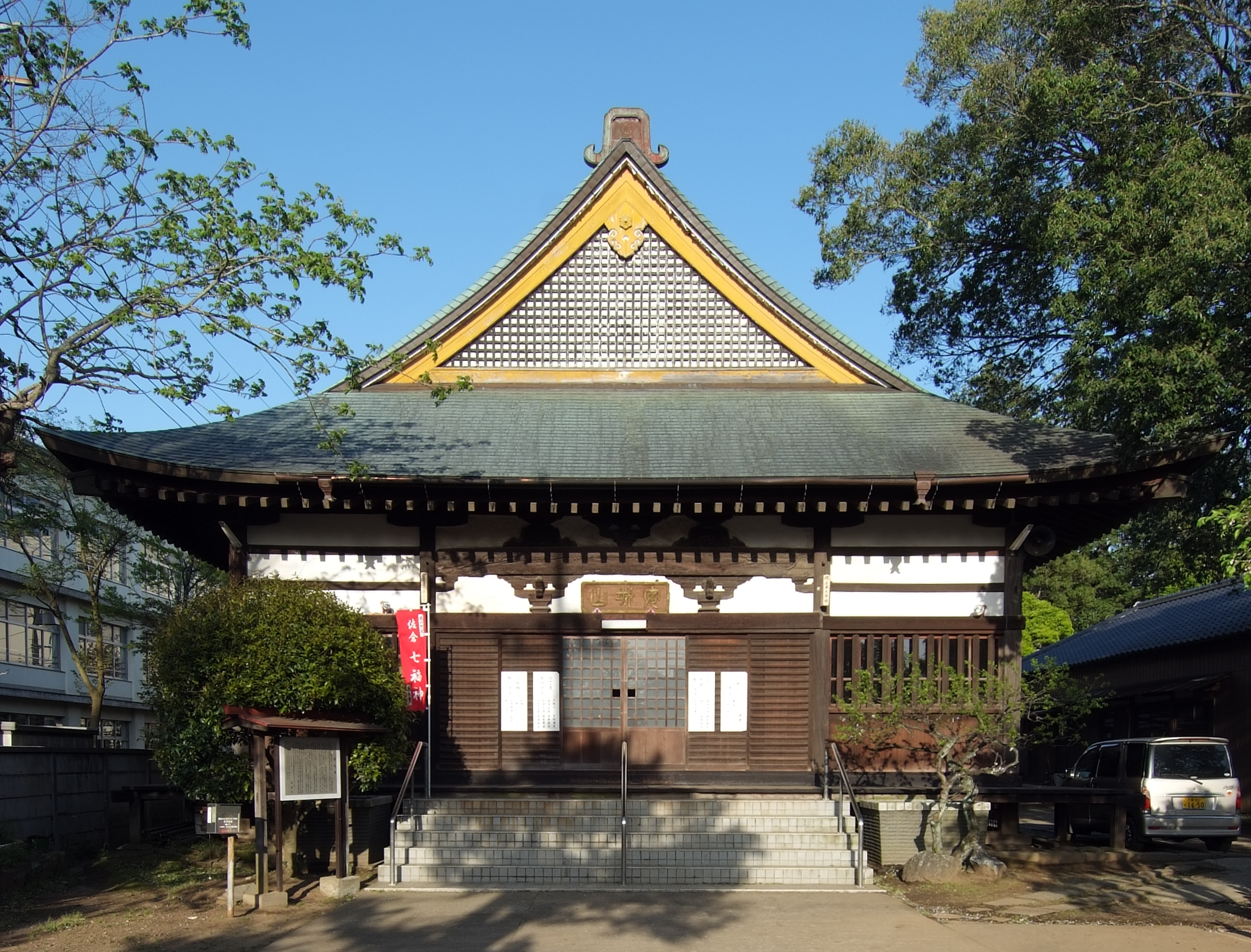 Hondo of Jindaiji Temple in Sakura Chiba Japan.